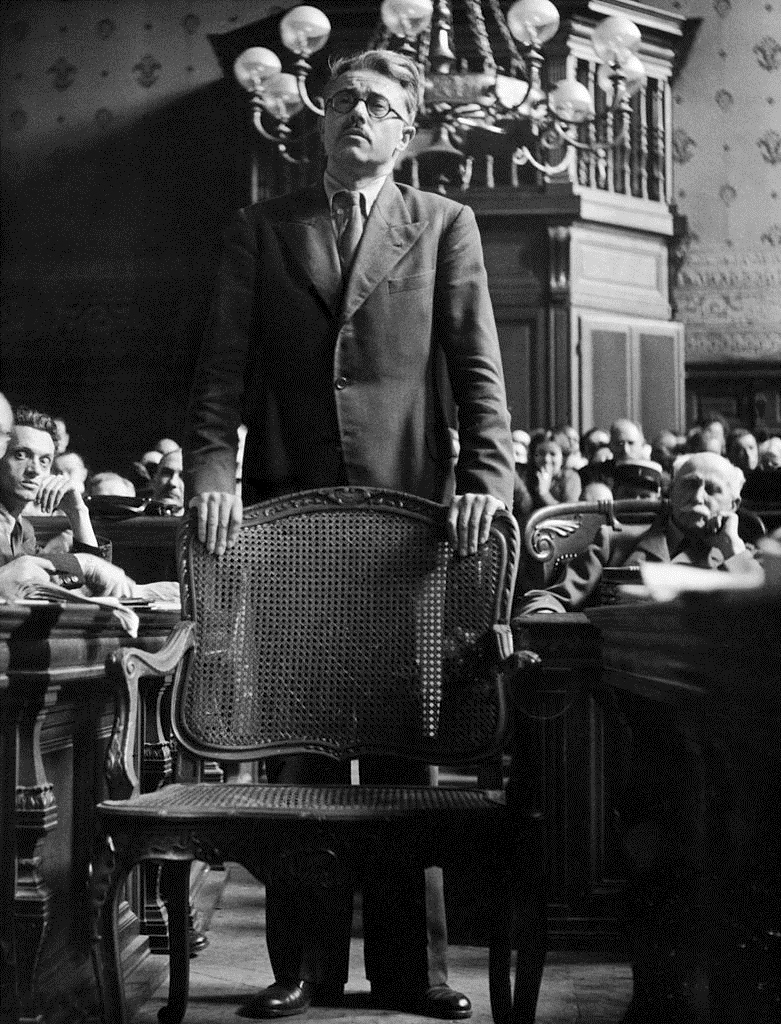 Yves Bouthillier Witness In Petain Trial